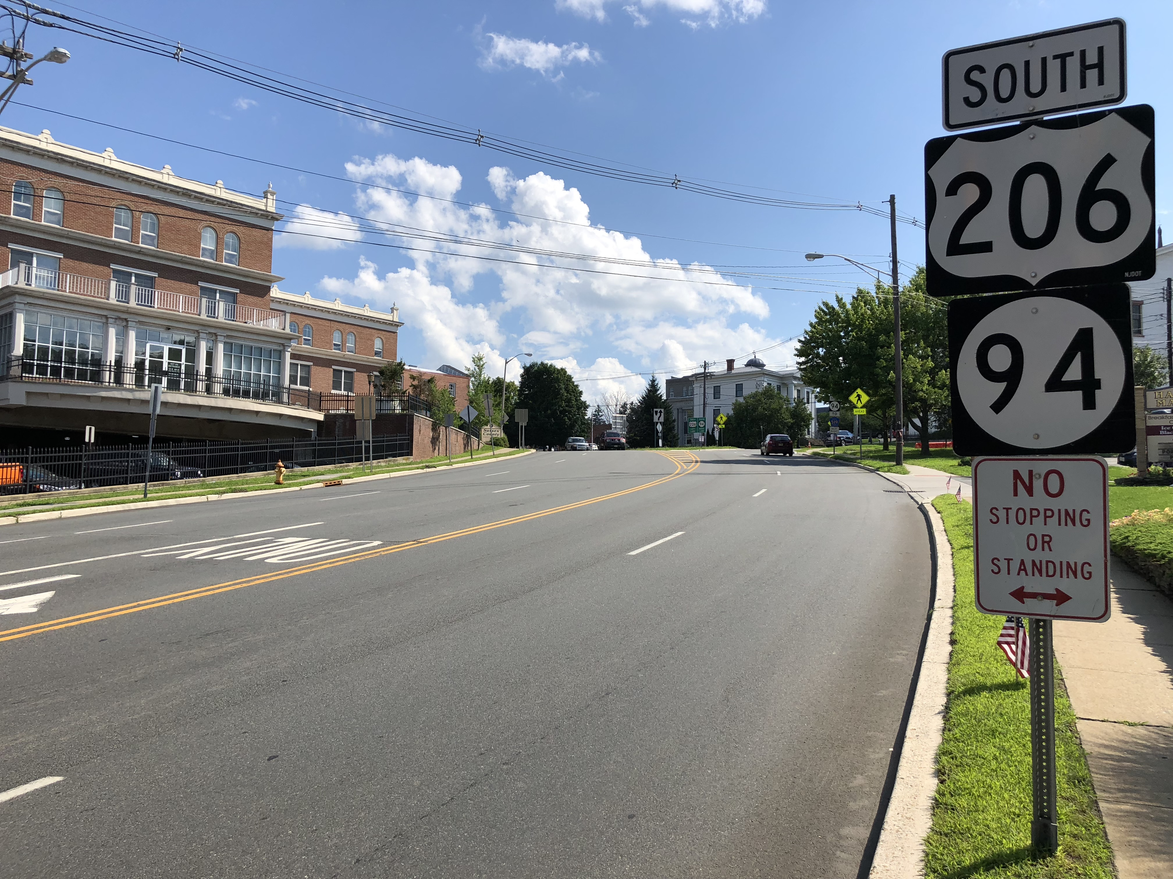 View south along U.S. Route 206, New Jersey State Route 94 and Sussex County Route 519 (Water Street) at Mill Street in Newton, Sussex County, New Jersey